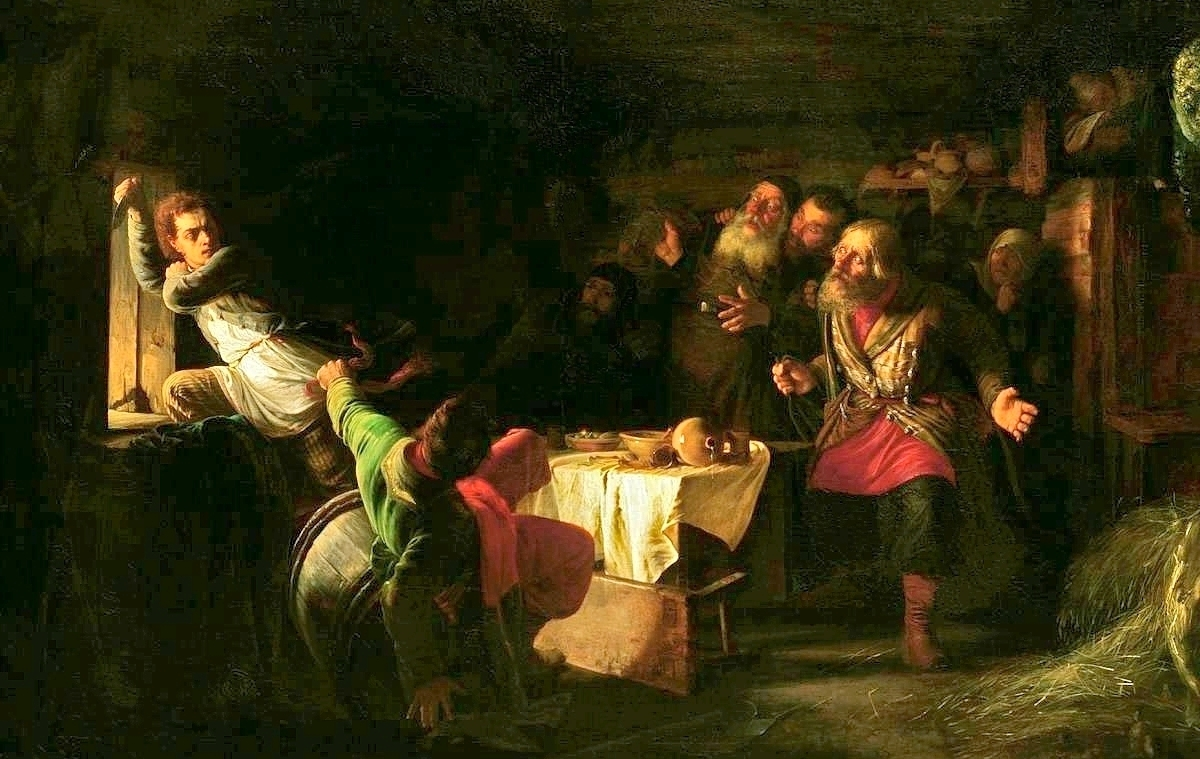 A scene from the tragedy of Pushkin's «Boris Godunov» (1825) – «In The Inn On The Lithuanian border».